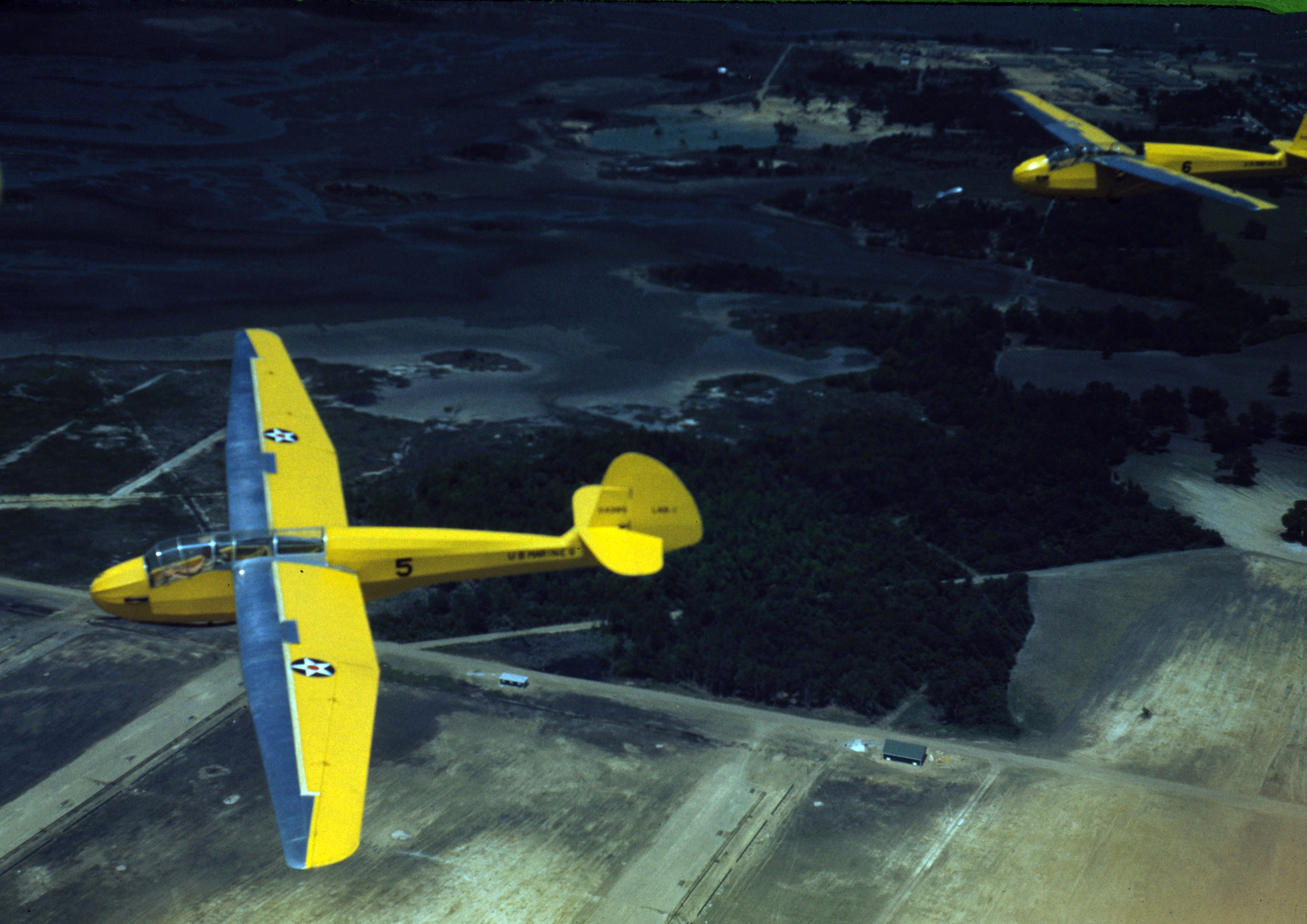 U.S. Marine Corps Schweizer LNS-1 (Model SGS 8-2) gliders in flight out of Parris Island, South Carolina (USA), in May 1942.